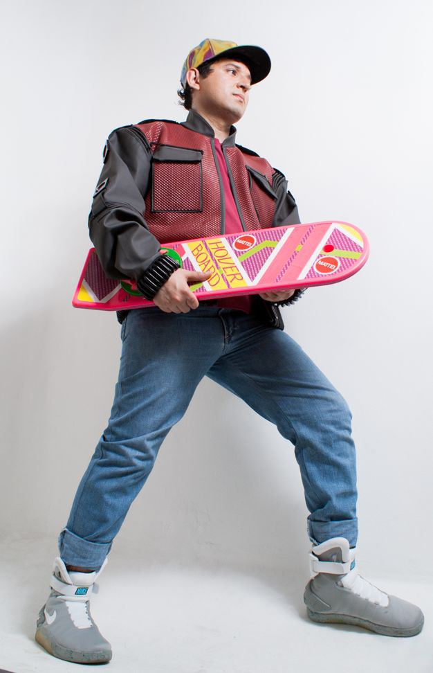 Cosplay of Marty McFly (Back to the Future Part II).